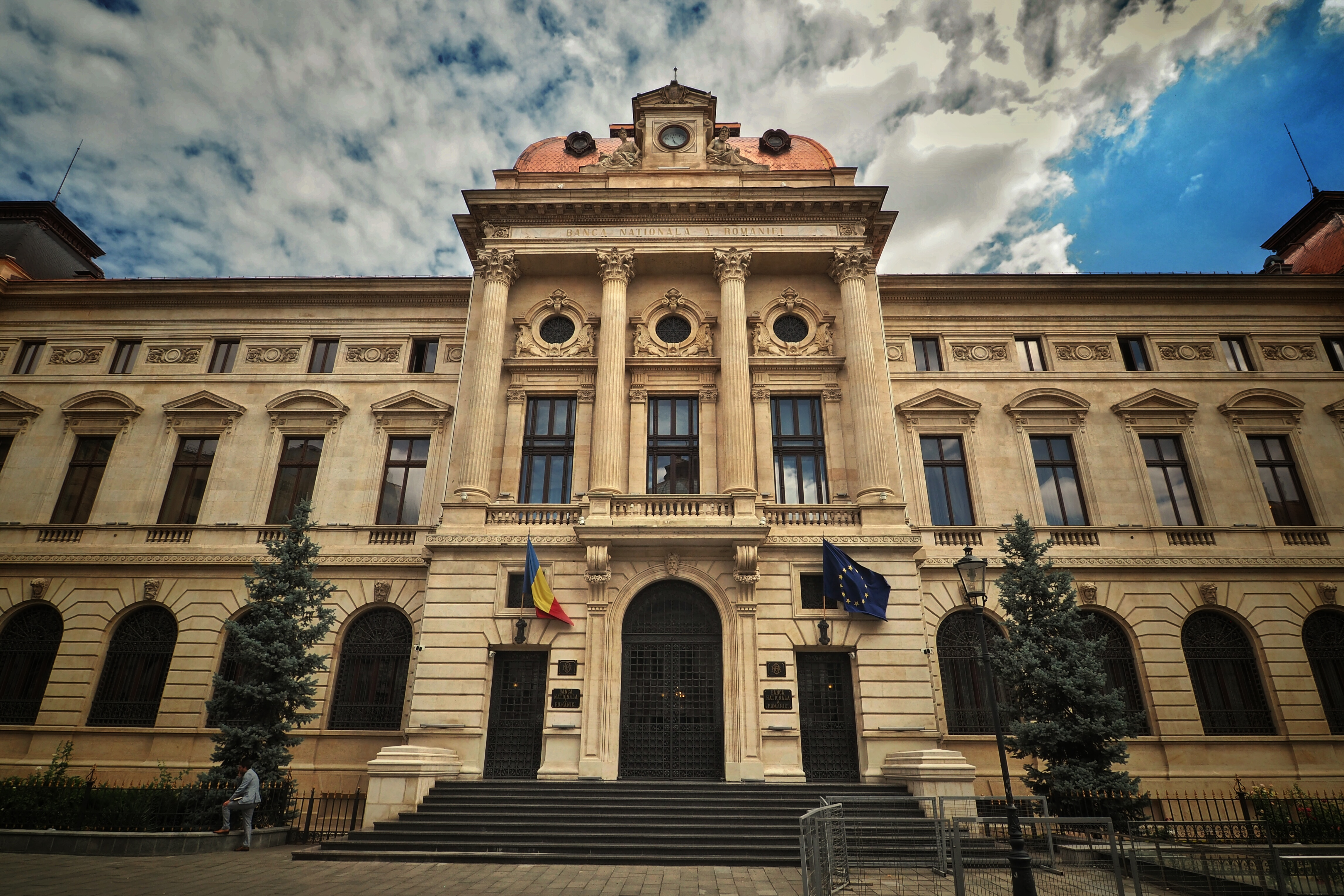 Bucharest, Romania Find out more about Bucharest: DiscoverBucharest